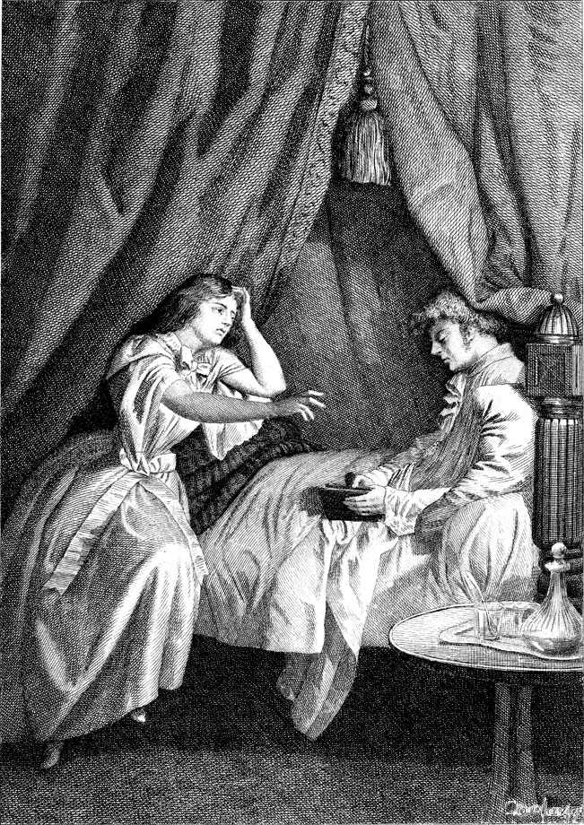 Illustration of Honoré de Balzac's The Message (1833).